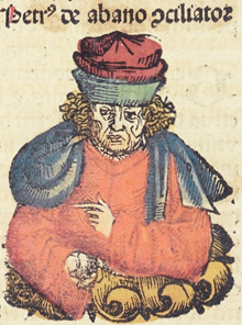 Woodcut from the Nuremberg Chronicle (Latin edition in Sao Paulo)